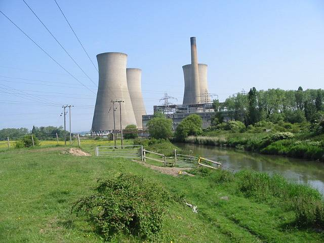 The Saxon Shore Way on W bank of Stour